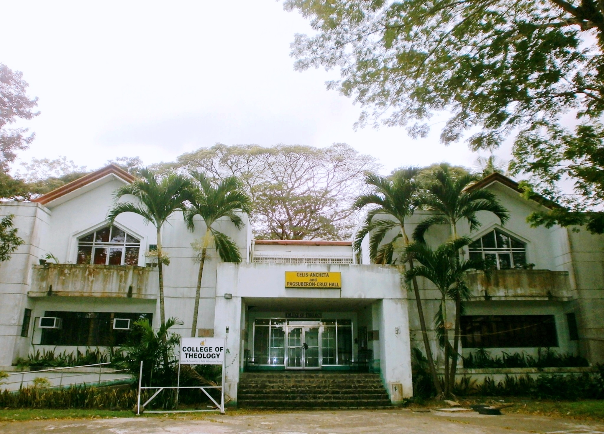 Celiz-Ancheta and Pasugberon-Cruz Hall where the Central Philippine University College of Theology is housed.